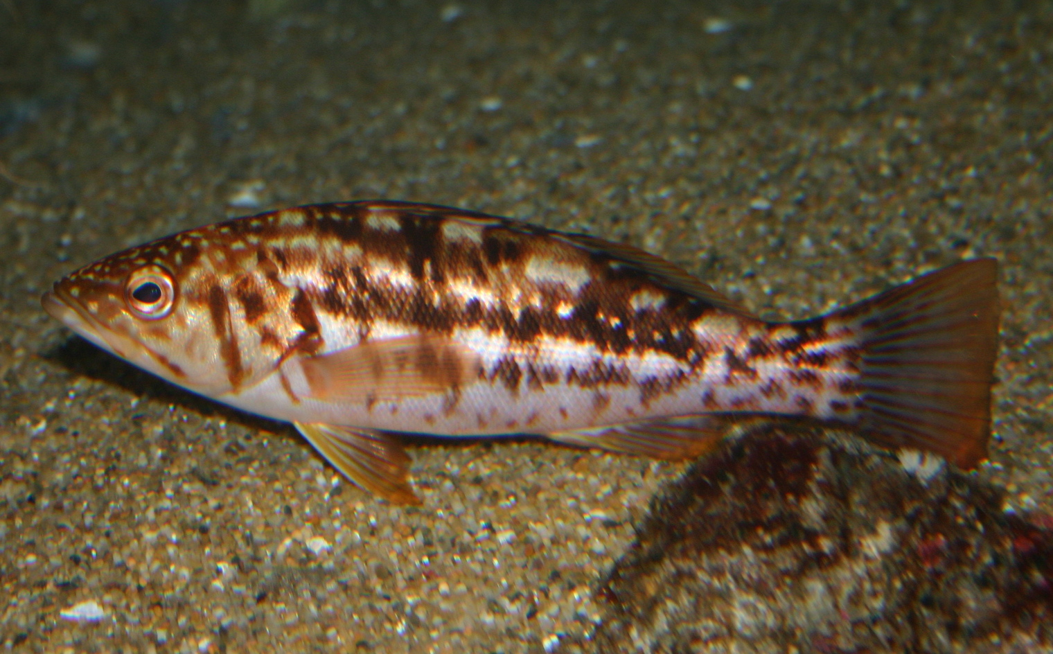 This kelp bass (Paralabrax clathratus) was photographed in the Monterey Bay Aquarium.